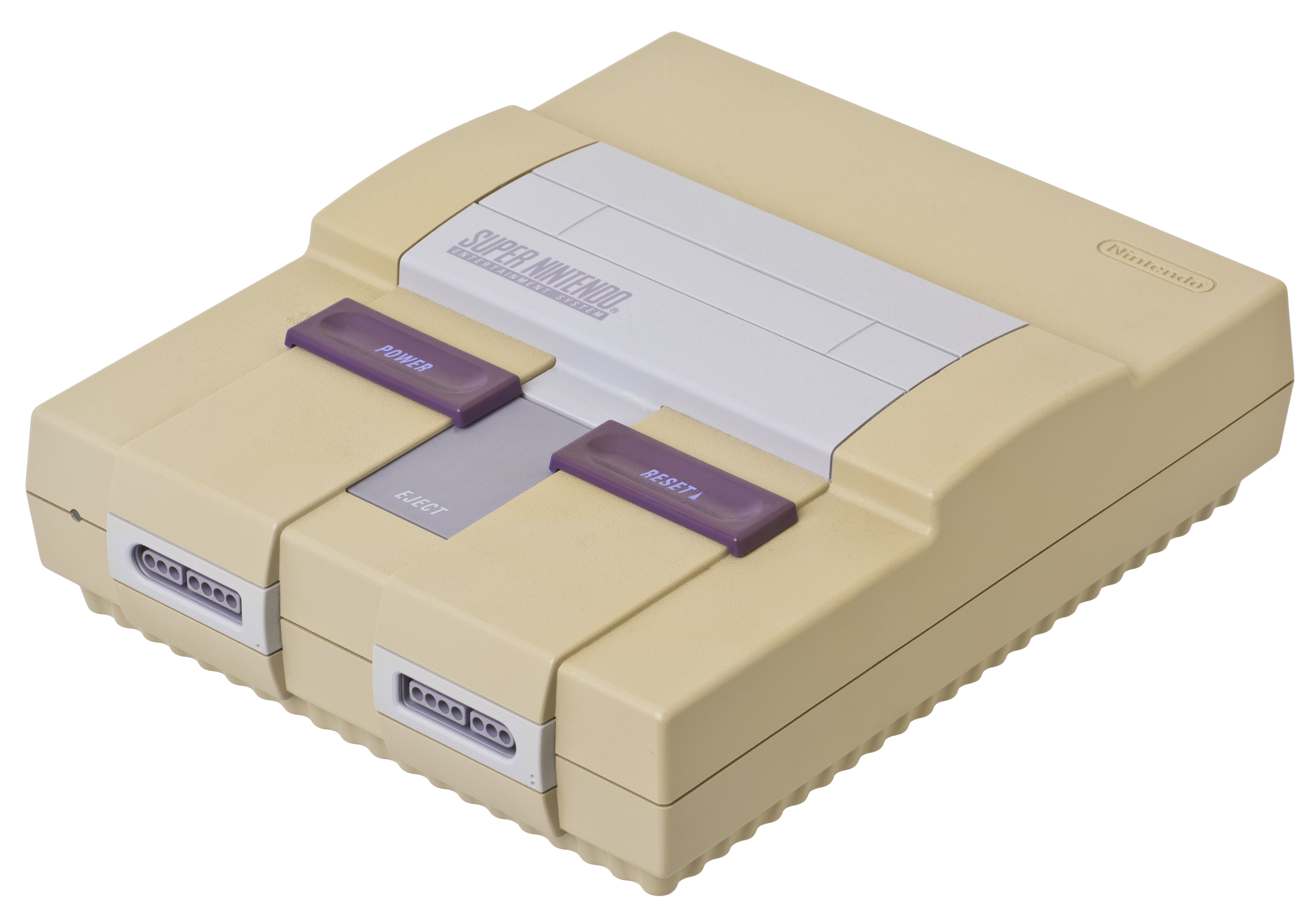 Picture showing the problem with early-production SNESes, where the plastic has oxidized to a yellow color and changed the color of the purple switches.